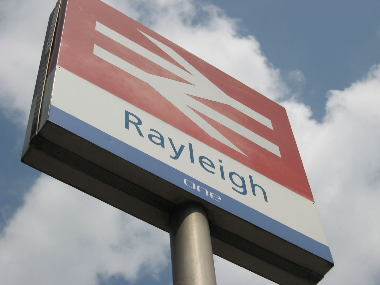 Sign at Rayleigh railway station